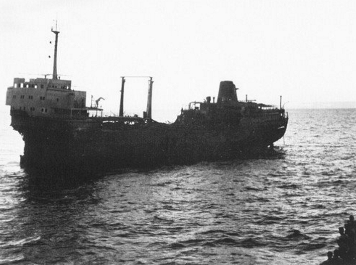 The stern of the wrecked tanker African Queen, circa in August 1960. The African Queen was built in 1955 and registered in Liberia. It was 180 m long, had a beam of 22 m and displaced 13,800 grt. In December 1958, it carried a mixed cargo, including highly volatile paints and 21,000 tons of crude oil from Colombia to Peterborough, New Jersey (USA). On 30 December 1958 the ship ran aground on Gull Shoal in a storm due to a navigational error. The captain tried to get his vessel off the shoal by odering full astern. Under the strain of being pulled astern with waves crashing over her side the African Queen broke in half. The result was devastating, a massive oil spill that polluted the coast of Ocean City, Maryland (USA). The crew was rescued by the U.S. Coast Guard. The entire stern section was re-floated and towed to shore, the front part sank in a later storm. Note: The description in the USS Valley Forge (CVS-45) 1960 cruise books reads: "The African Queen, divided but undaunted, was encountered in mid-Atlantic with its crew of three." This happened during the return voyage across the Atlantic from the Mediterranean Sea. The aircraft carrier USS Valley Forge (CVS-45) was deployed to the Mediterranean Sea from 9 June to 30 August 1960. Therefore the photo was obviously taken more than 1 1/2 years after the shipwreck.